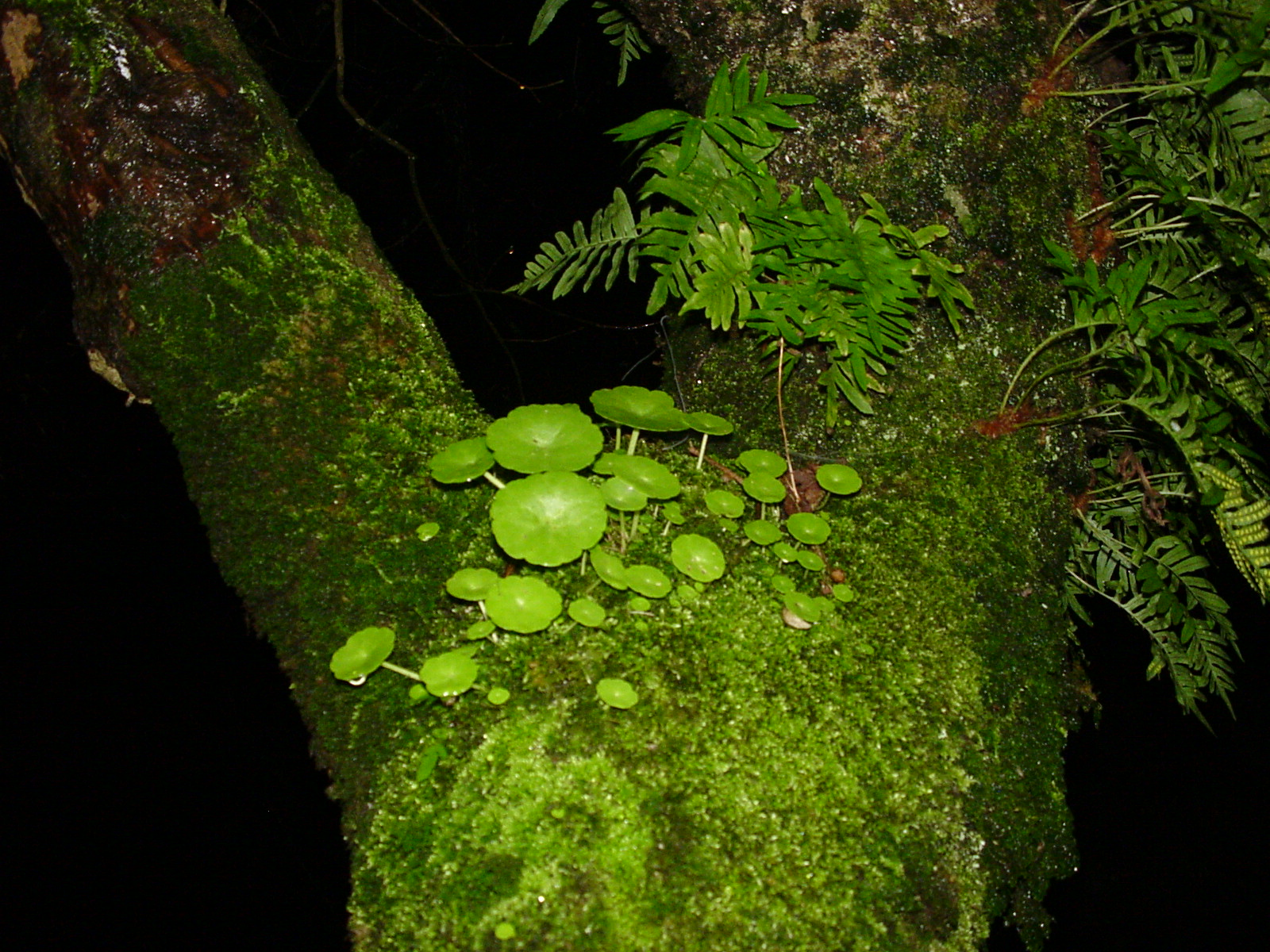 Epiphytes on tree near the river Auray, at Auray (Britanny, France)